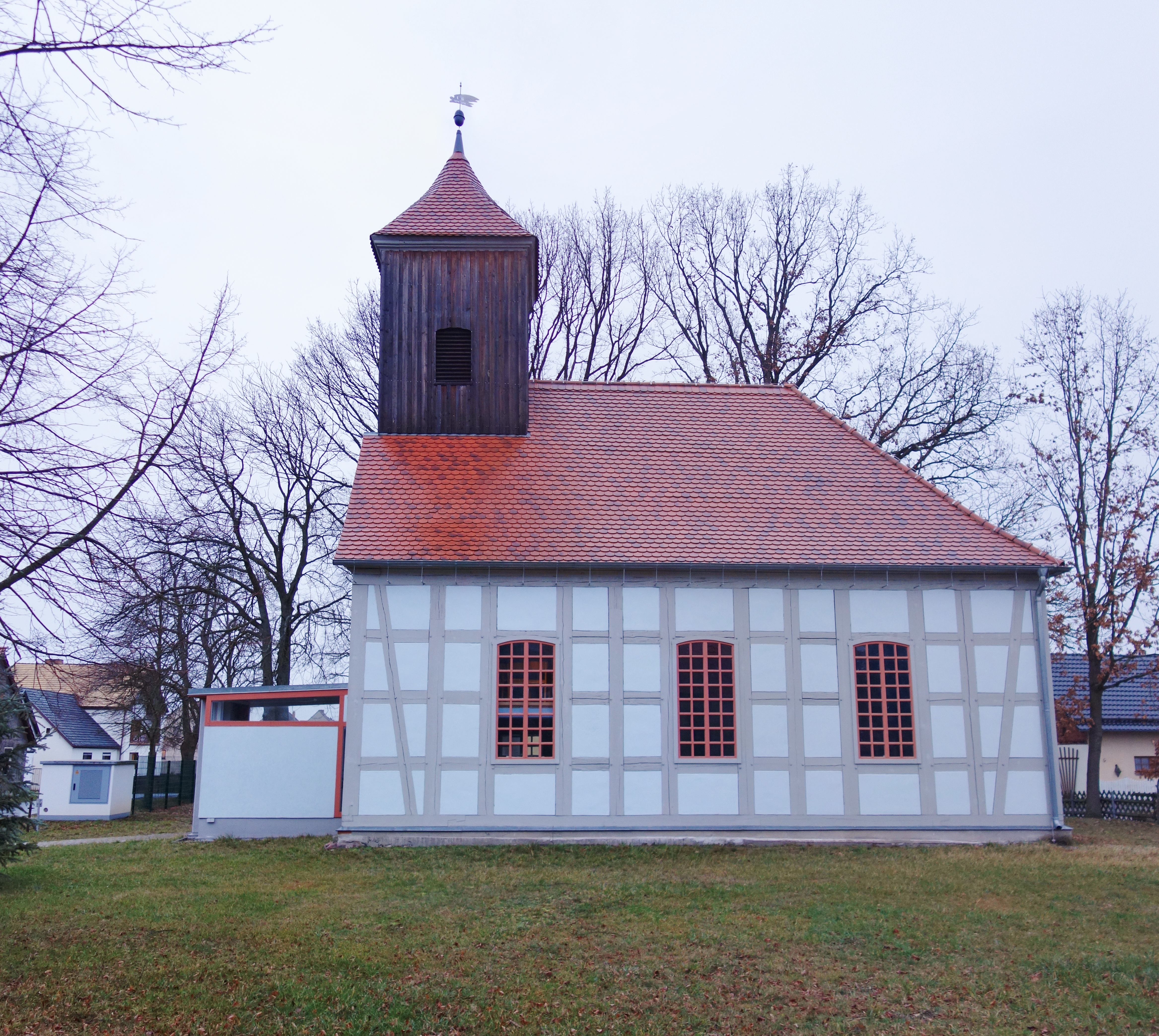 Southern view of the church in Klein Muckrow , Friedland (Niederlausitz) municipality , Oder-Spree district, Brandenburg state, Germany.